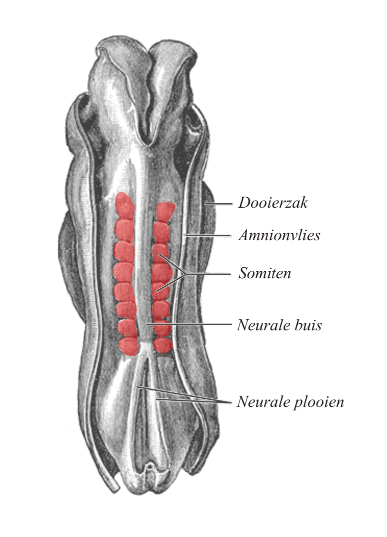 Dorsum of human embryo, 2.11 mm. in length. (After Eternod.)